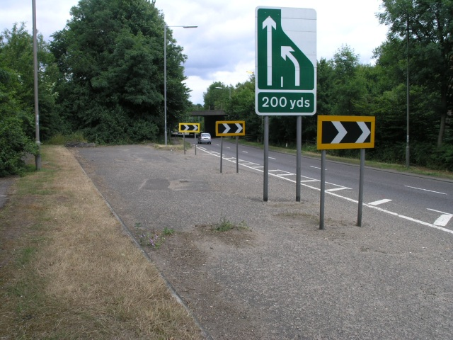 Uncompleted Motorway Junction This is junction 7 on the M23 - and the end of the motorway as junctions 6 to 1 were never built. In the picture you can see the vestigial on-ramp which would have taken traffic in the London direction of the never completed motorway. The bridge in the distance is also part of the motorway and has never been used.